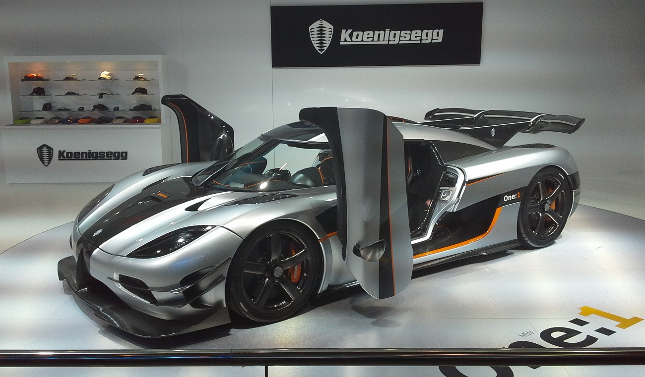 Koenigsegg One:1 photographed at the Auto China 2014, Beijing, China.